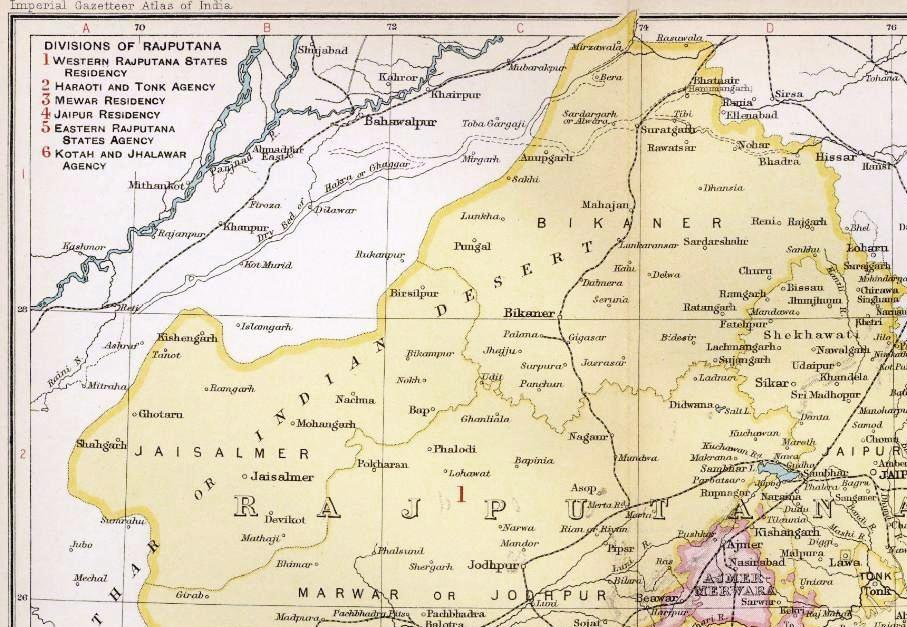 1909 Imperial Gazetteer of India Rajputana map section